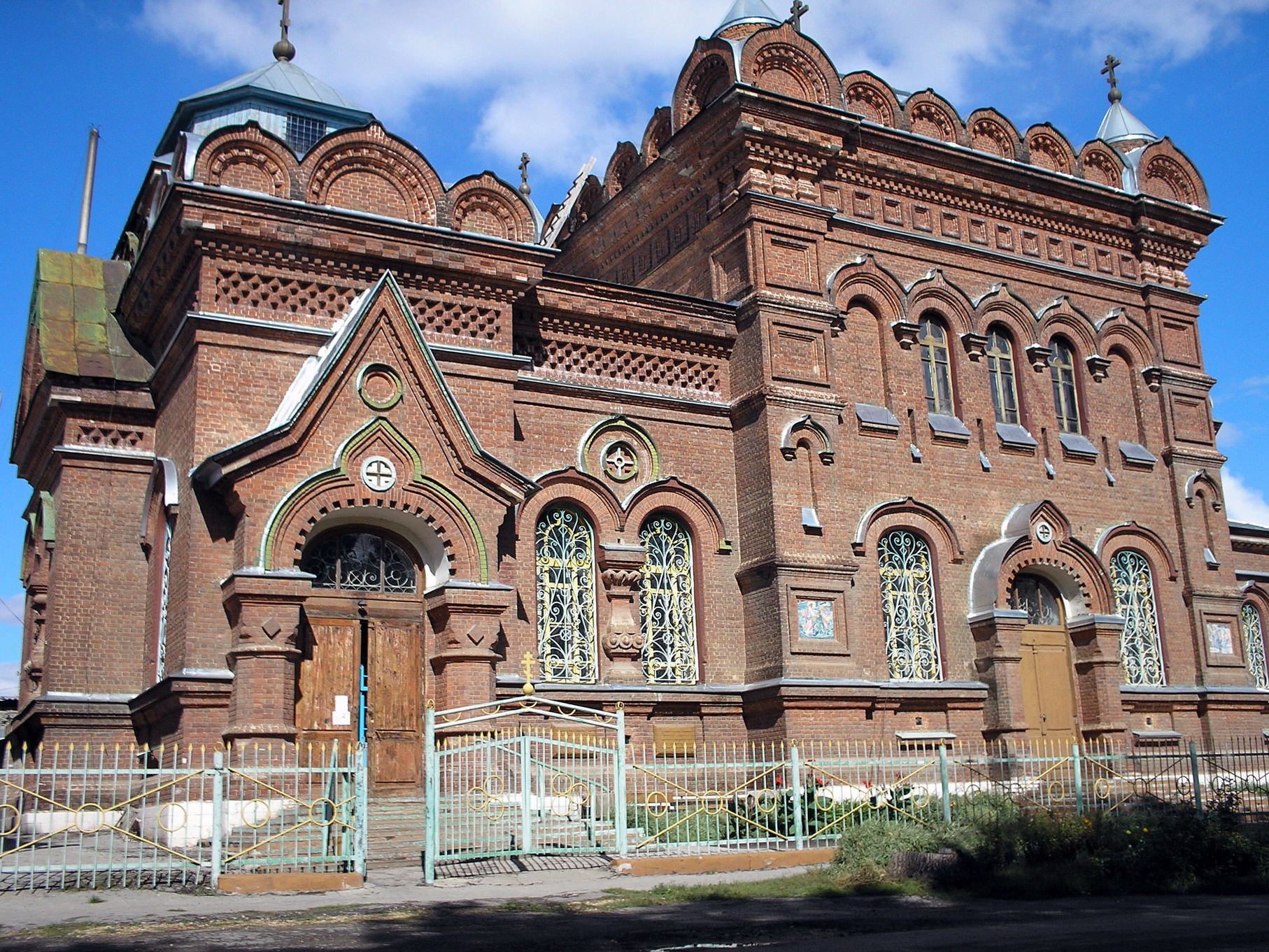 Khvalynsk. Kresto-Vozdvizhensky church